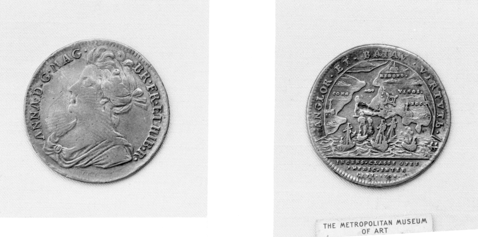 German; Counter; Medals and Plaquettes